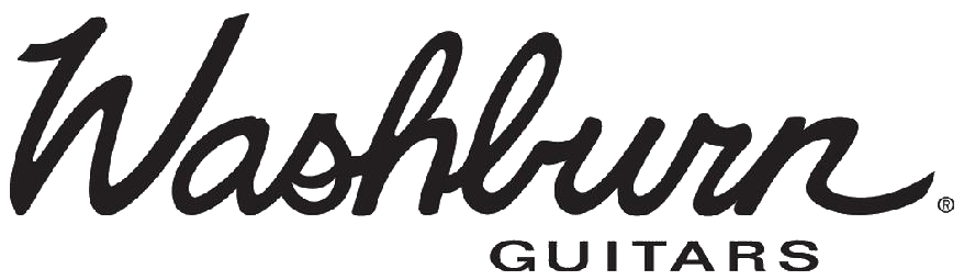 Logo of Washburn, a guitar company of the USA.